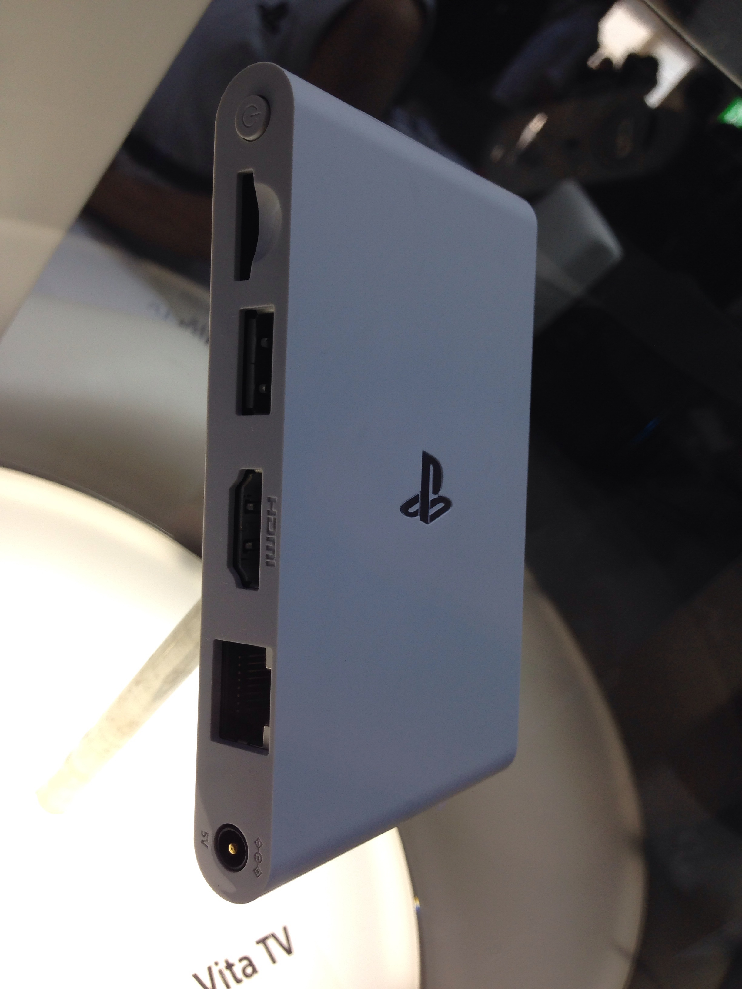 PlayStation Vita TV Tokyo Game Show 2013